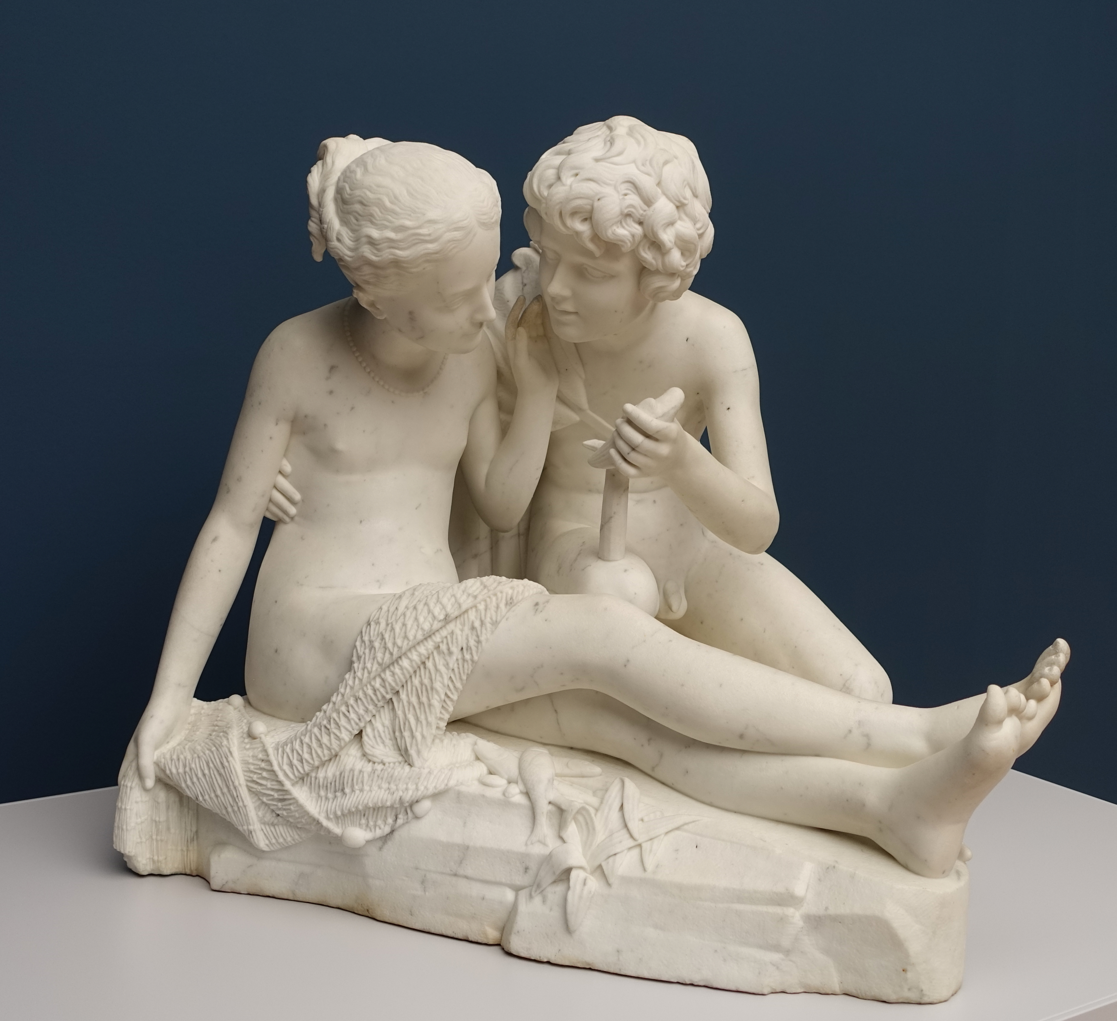 Daphnis and Chloe by John-Étienne Chaponnière, 1828, marble - Villa Vauban - Luxembourg City, Luxembourg.